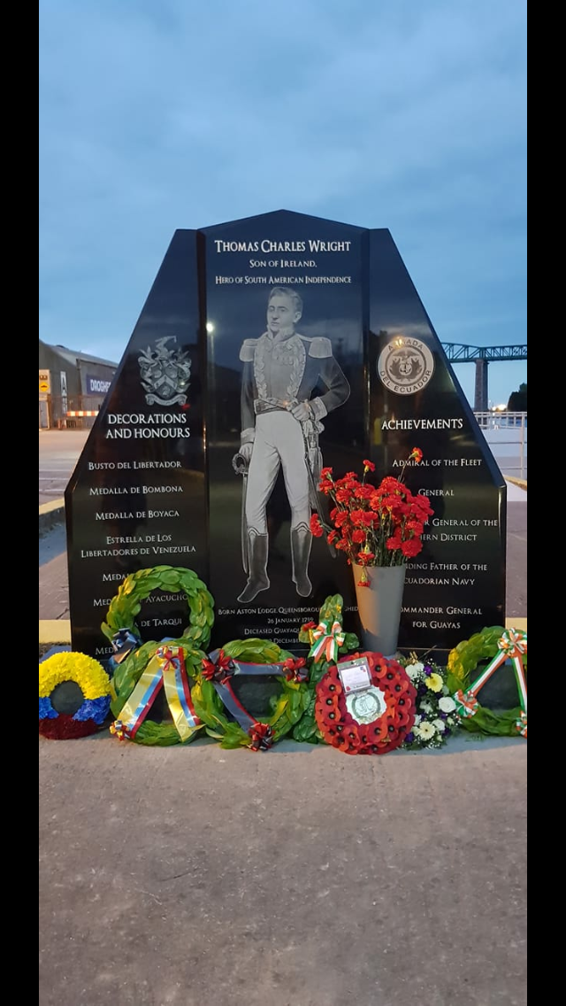 monument to Admiral Thomas Charles Wright, Drogheda , Ireland